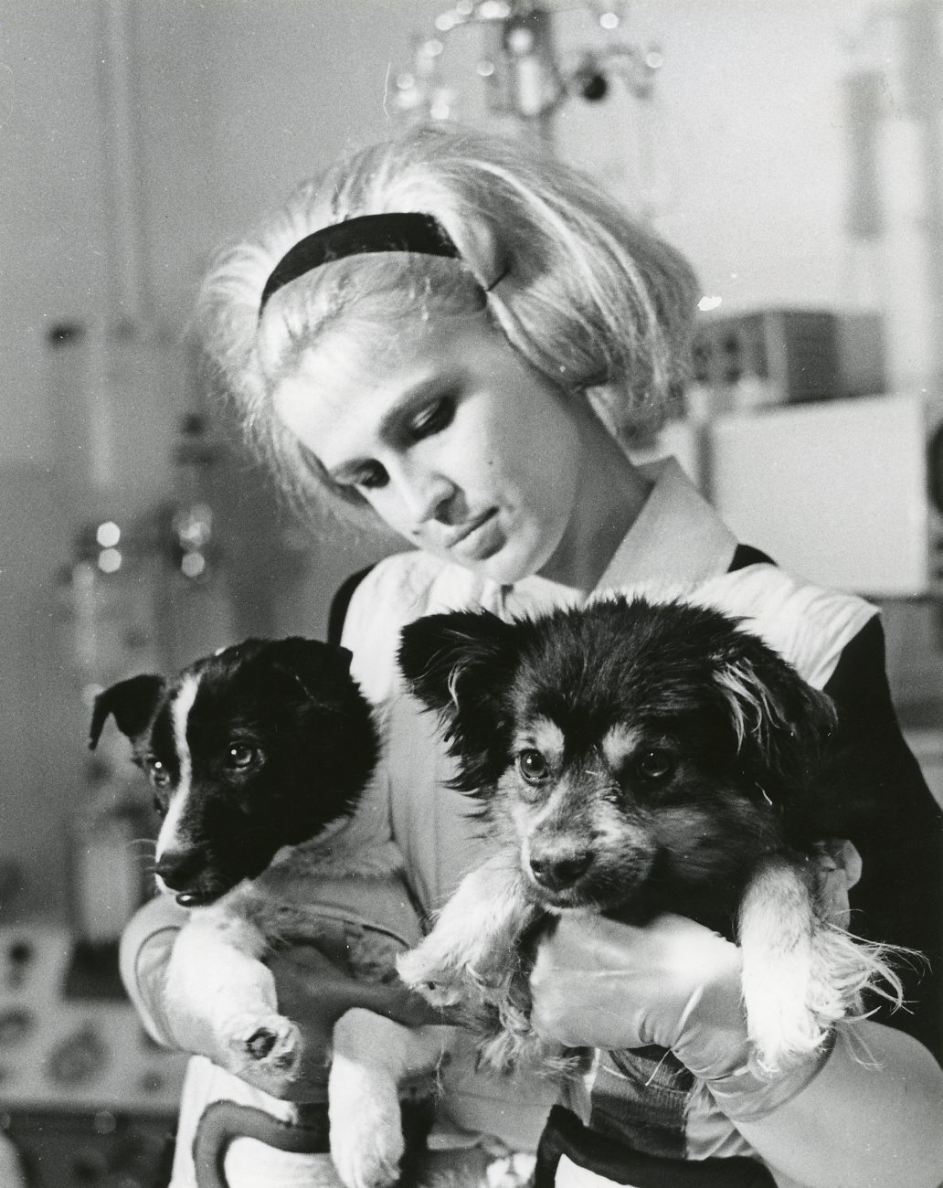 Spacedogs Veterok and Ugoljok